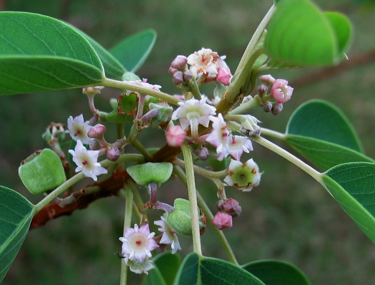 Hairy-fruit chewstick Rhamnaceae Endemic to the Hawaiian Islands (Molokaʻi, Lānaʻi (extinct), West Maui, Kahoʻolawe (extinct), Hawaiʻi Island) NatureServe: Critically Imperiled Oʻahu (Cultivated) Though no known use by the early Hawaiians or in modern times, other species outside of the Hawaiian Islands have the fitting name "chew-stick" (chewstick). The Urban chewstick, or white root (Gouania lupuloides), is used widely by local people from Florida, the Caribbean, Mexico, and into Central and South America as a tooth cleaner. A stick about the thickness of the small finger, with bark removed, is chewed thus strengthening the gums. The stick produces a slightly bitter, yet aromatic, soap-like froth (saponins) when chewed. The softened stick is then used by rubbing the teeth much like a toothbrush. In times past, dried and powdered forms were exported to Europe and the United States. Jamaicans still use chewstick for medicine and in a mouthwash called "Chew-Dent." They also use it in making ginger beer, a stronger tasting ginger ale. Chewstick is also used in brewing beer as a hops substitute and is perhaps why some Jamaican beers have a distinctive taste.